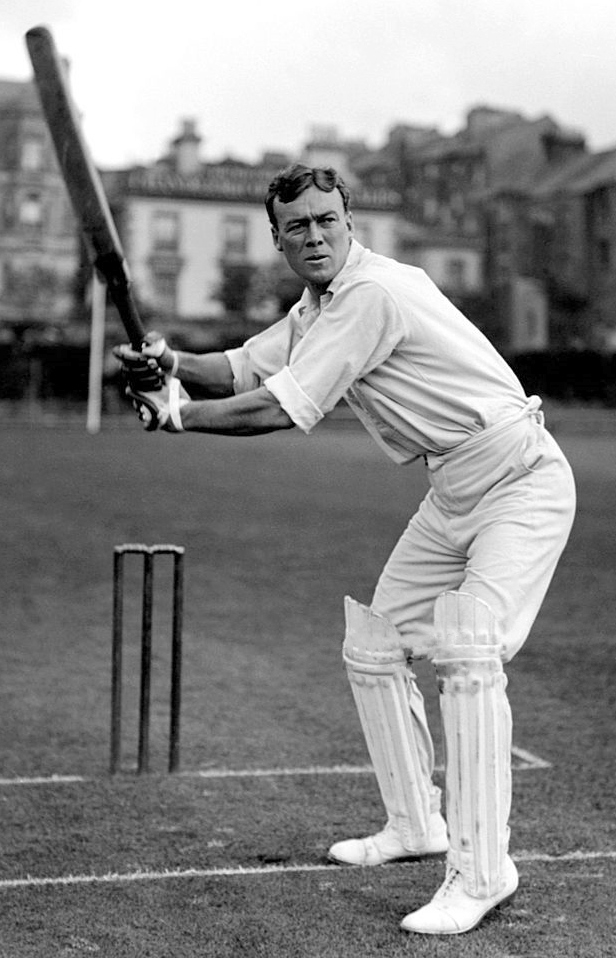 James Hugh Sinclair, Transvaal, London County and South Africa, circa 1905.